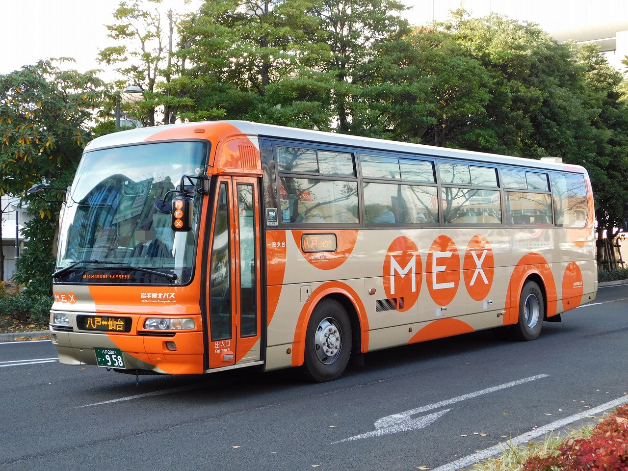 Iwate Kenpoku bus Nanbu branch (Nanbu bus) Mitsubishi Fuso Aero Bus (Michinori group color "MEX") on highwaybus "Umineko-go"(Hachinohe-Sendai)